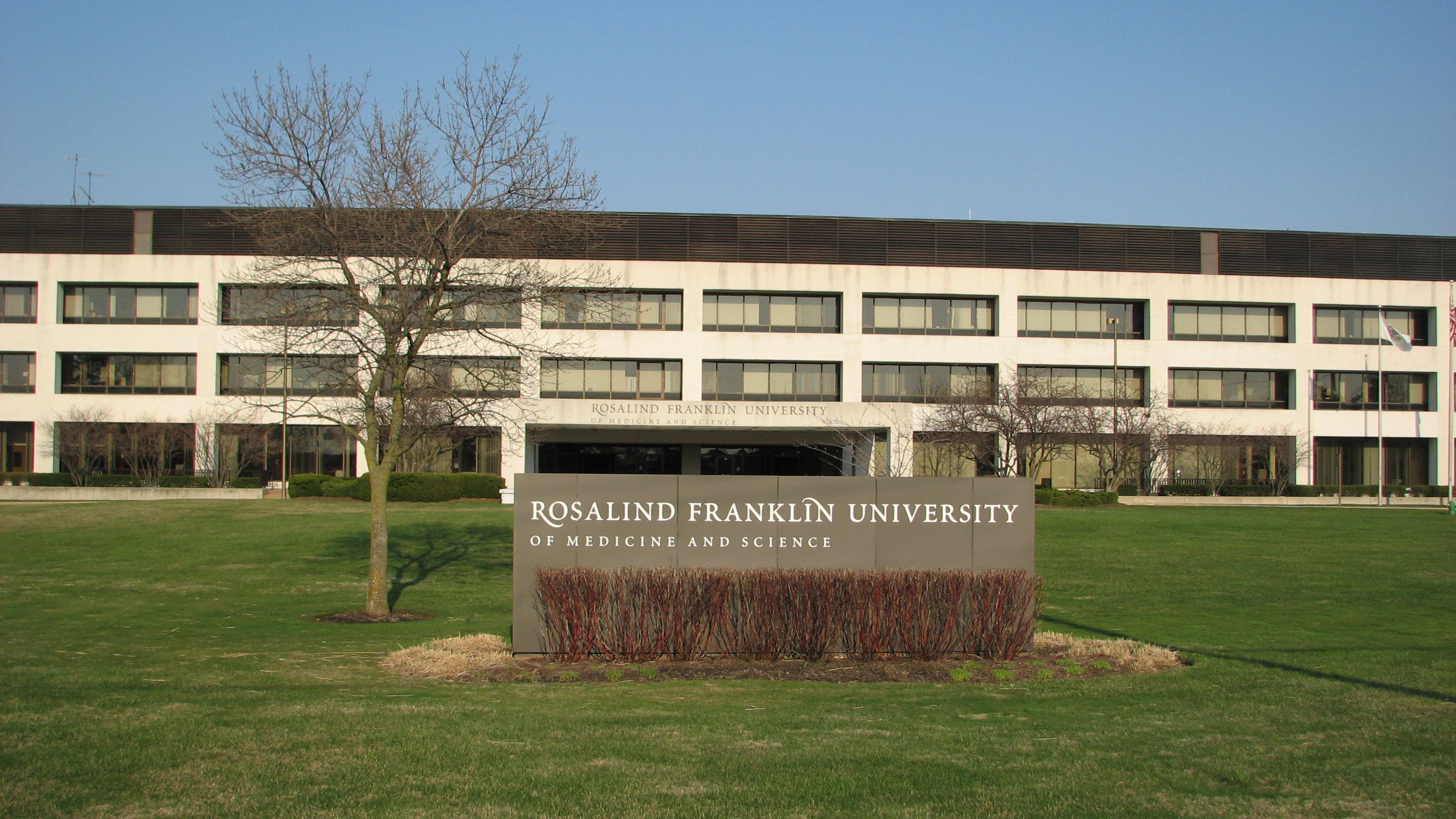 Building of the Rosalind Franklin University of Medicine and Science, on Green Bay Road, North Chicago, IL. The namesake is Rosalind Franklin of DNA crystallography fame.